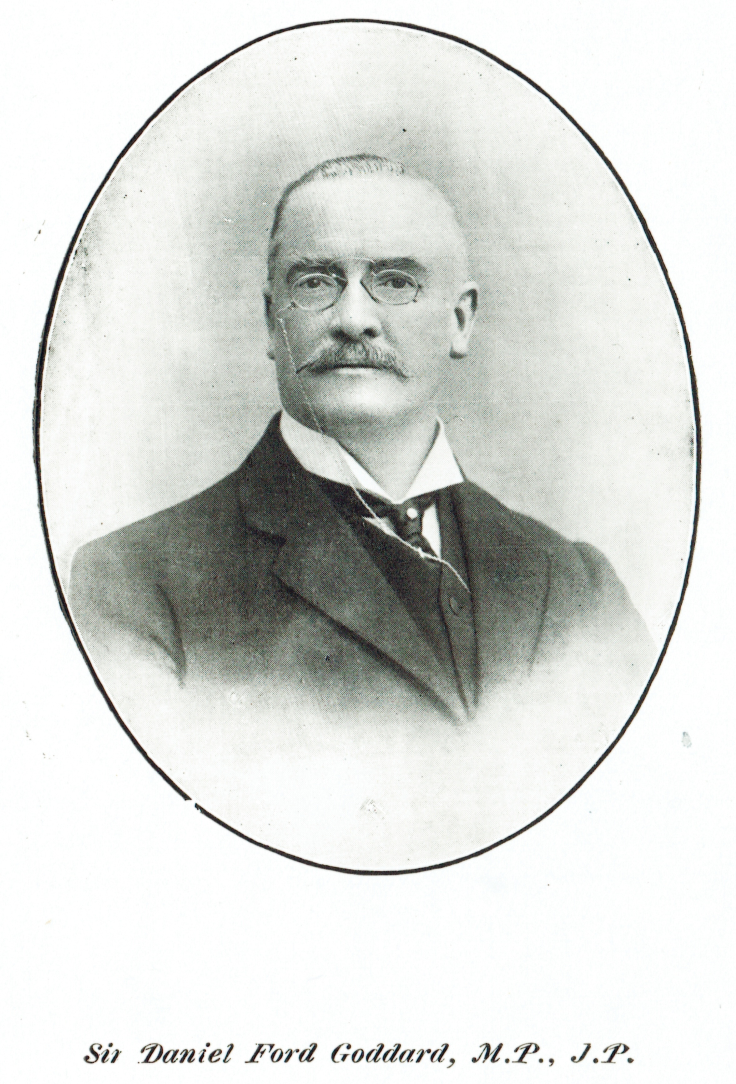 Portrait of Sir Daniel Ford Goddard (1850-1922), Member of Parliament, Justice of the Peace, from the book 'Suffolk Leaders: Social and Political' by Ernest Gaskell [usually spelled Gaskill in official records (1868-1928)] published for private circulation [late 1911 or early 1912] by the Queenhithe Printing and Publishing Co. Ltd, 13 Bread Street Hill, Queen Victoria Street, London E.C.